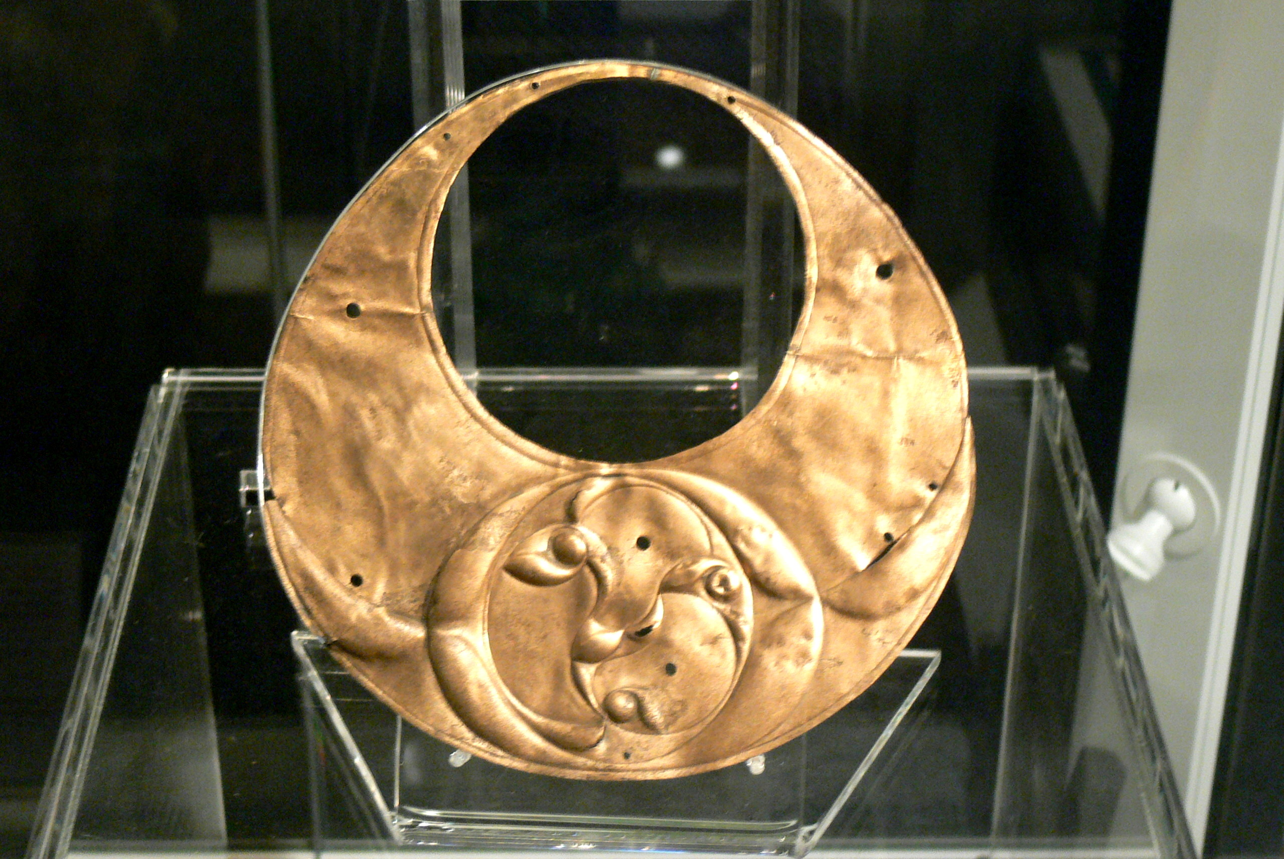 National Museum of Wales ( Cardiff ). Crescentic bronze plaque with triskele decoration, from Llyn Cerrig Bach lake deposit ( 200 BC - 100 AD).